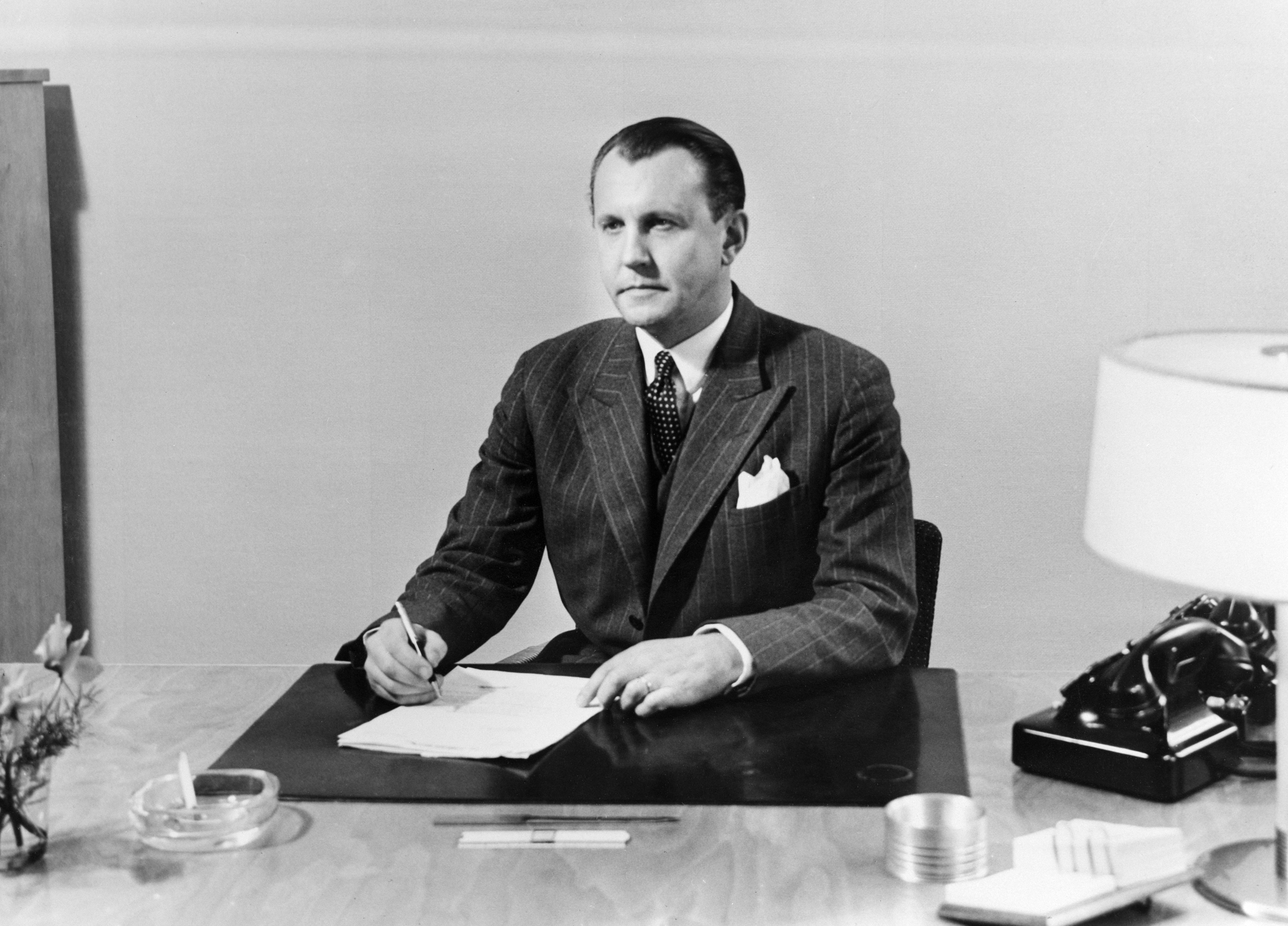 Photograph of the Finnish lawyer and businessman Lauri K. J. Tukiainen (1905–1987).